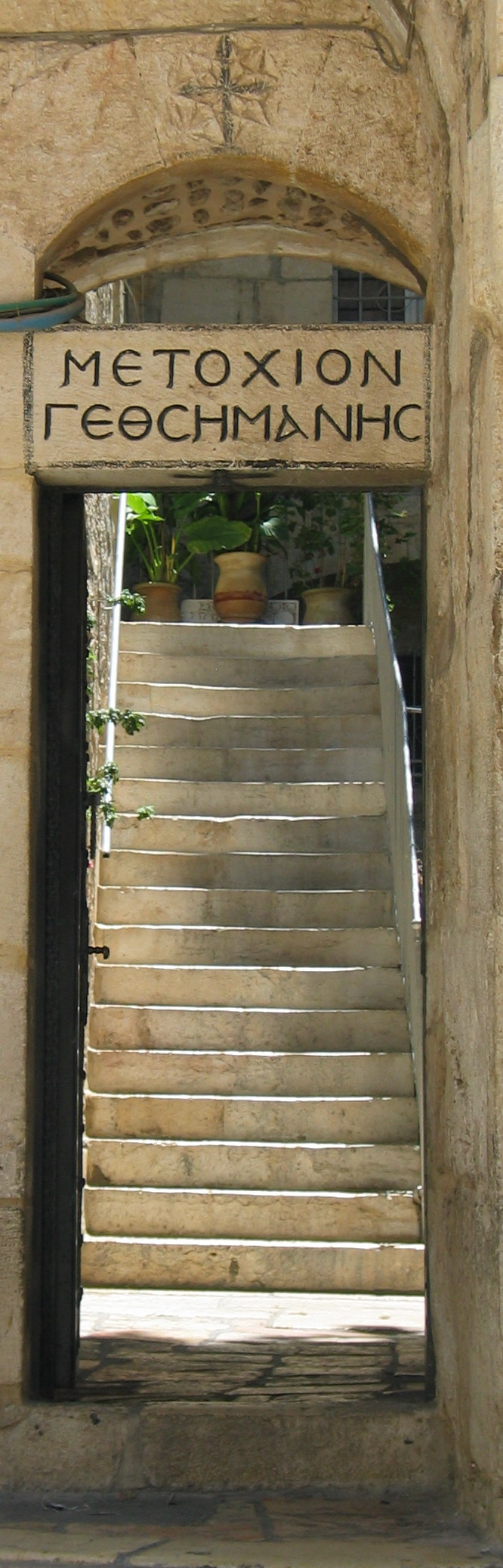 A plaque "Μετοχιον Γεθσημανης" in all caps and with lunate sigma at the entrance of the Greek Orthodox monastery named "METOXION - Gethsemane" on the parvis of the Holy Sepulchre church just opposite to the main entrance to the Church of the Holy Sepulchre in Jerusalem Old City.